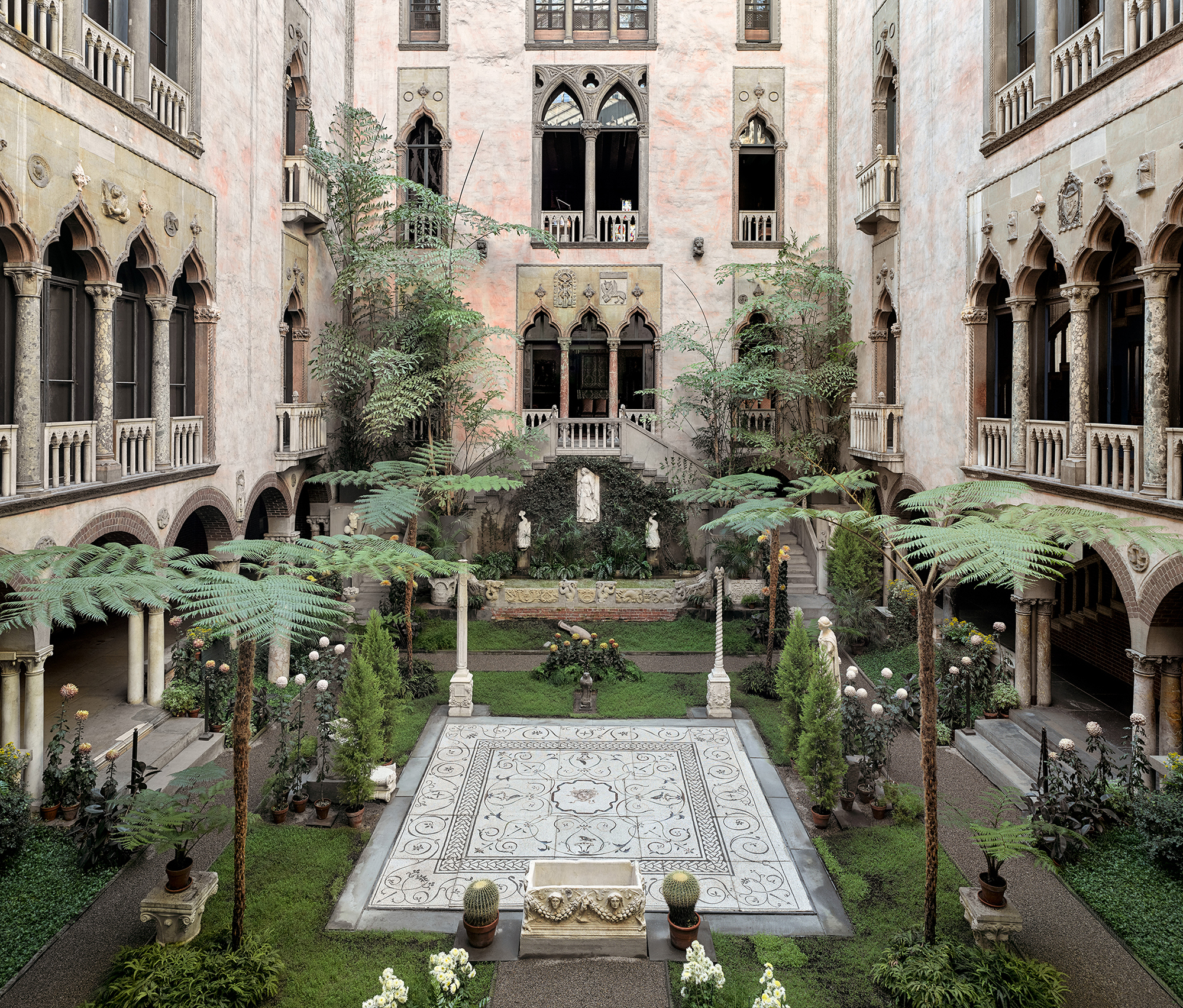 Courtyard, Isabella Stewart Gardner Museum, Boston. Photo: Sean Dungan